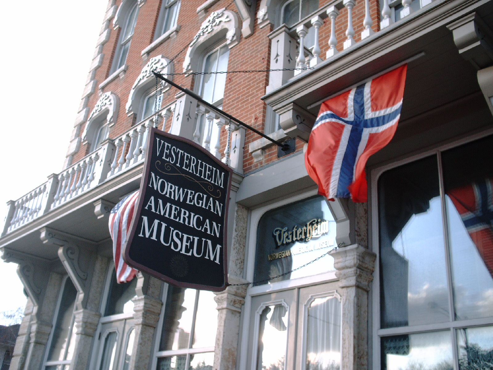 Photo I took in 2006 of the front of the Vesterheim Norwegian-American Museum main building in Decorah, Iowa. CC & GFDL.